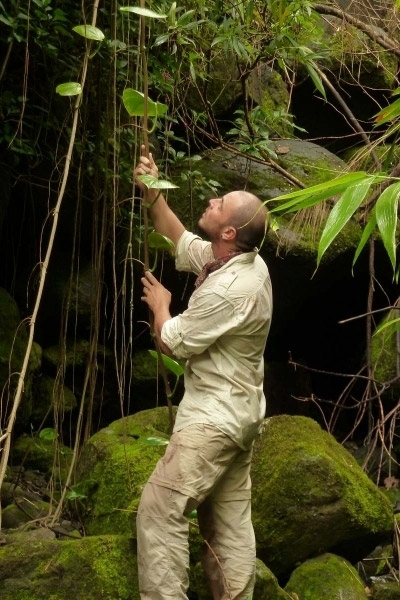 Ignacio Solano working in the Brazilian jungle